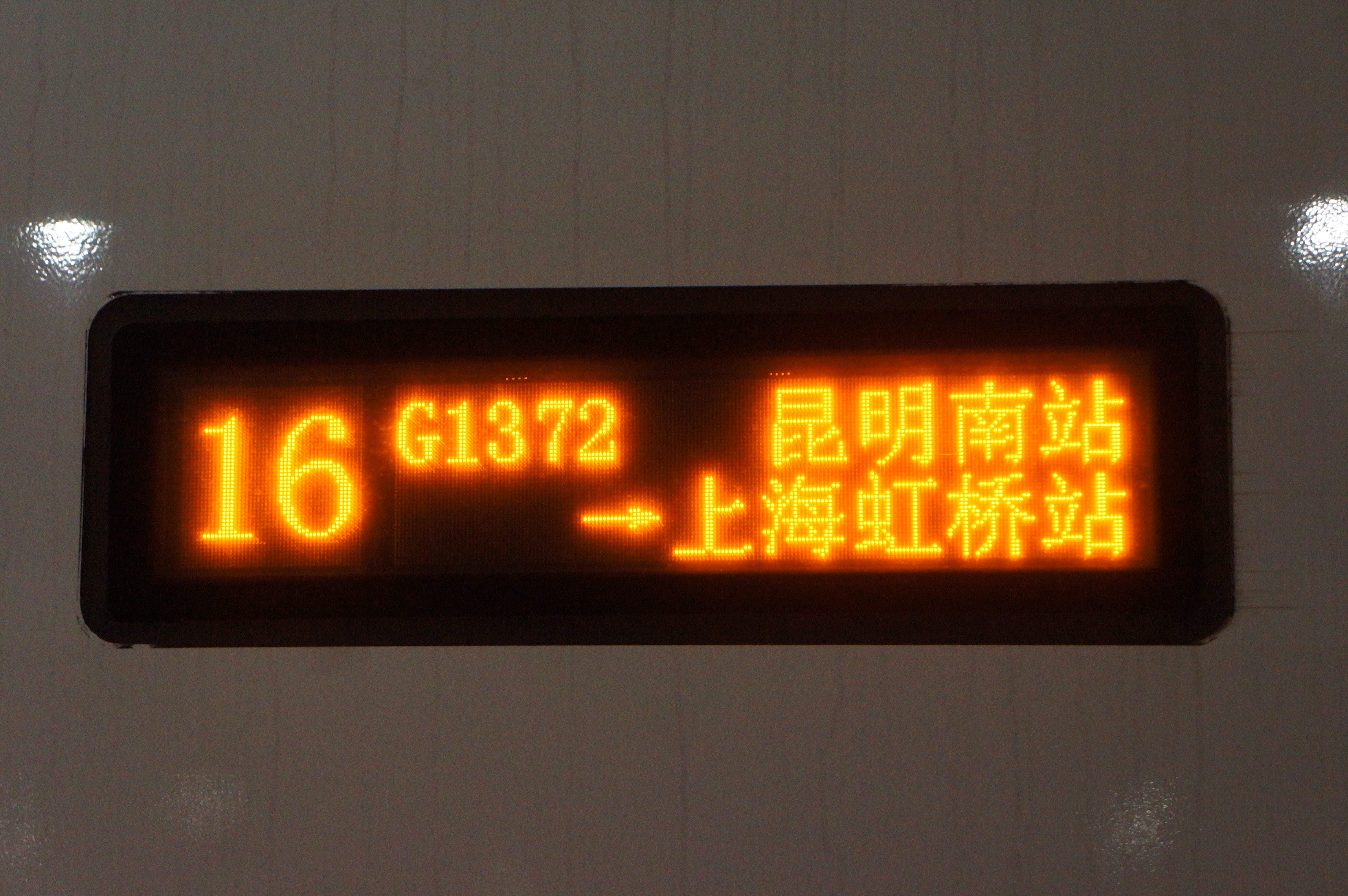 G1372 infoboard in 201712 on CR400BF